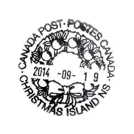 Postmark from Christmas Island, Nova Scotia. It could be obtained by sending an addressed piece of mail with the correct postage (or international reply coupons) to: Christmas Island Post Office, 8499 GRAND NARROWS HWY, CHRISTMAS ISLAND NS CANADA B1T 1A0